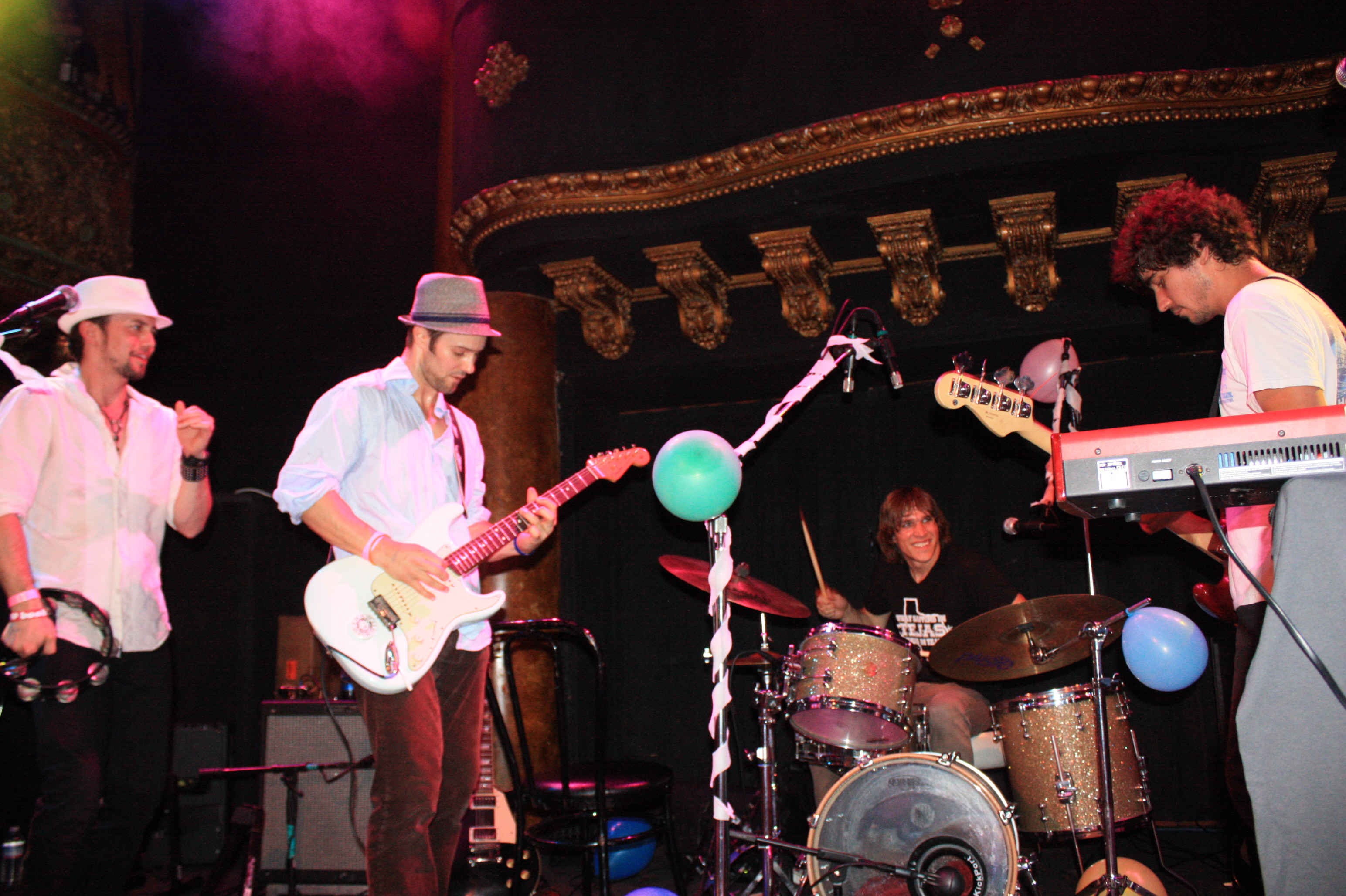 100 Monkeys performing at the Great American Music Hall in San Francisco.